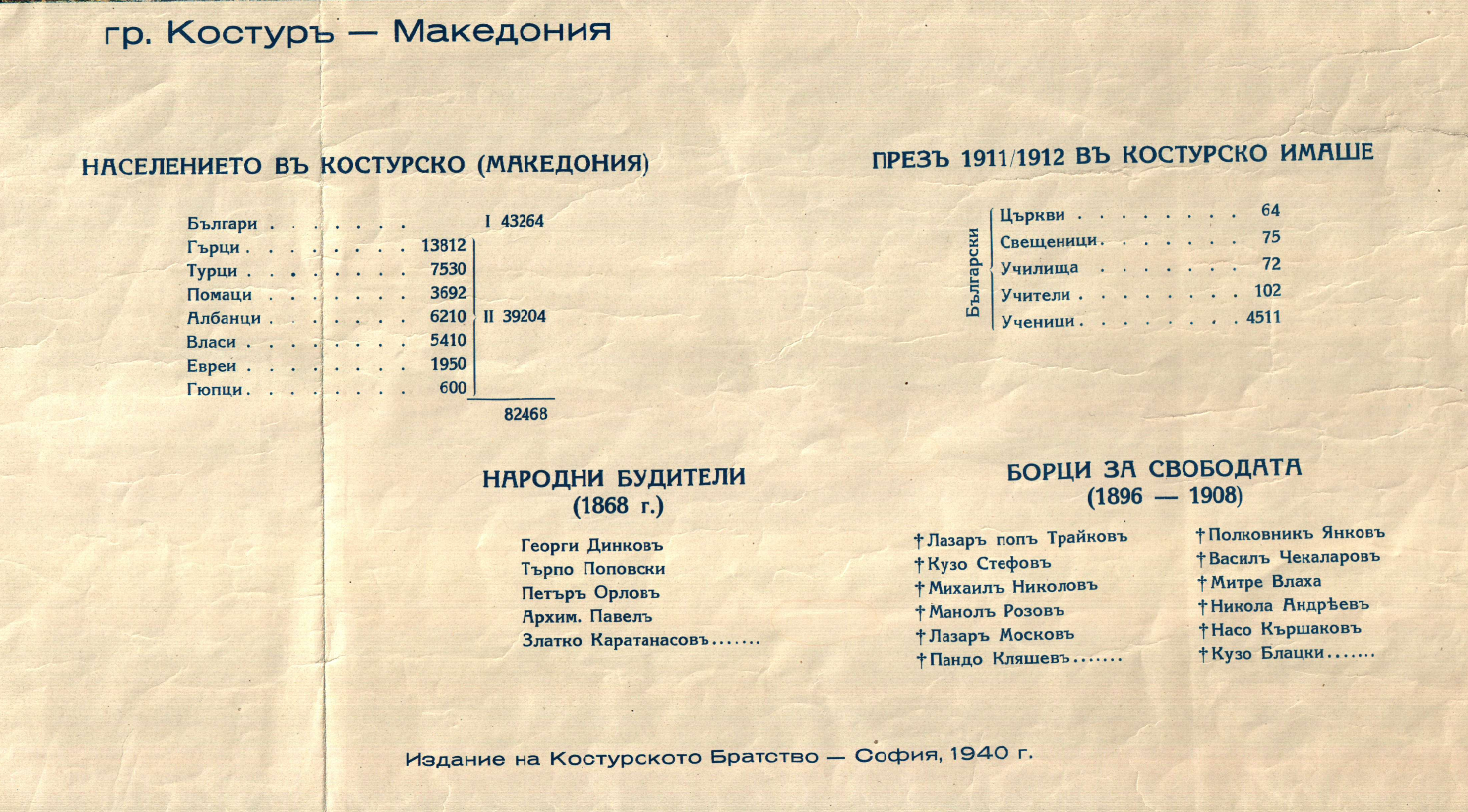 Table with demographic data, data on the educational movement, National Leaders and freedom fighters of Macedonia, 1940